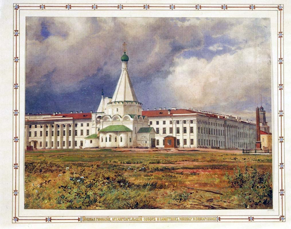 Michael Archangel Cathedral